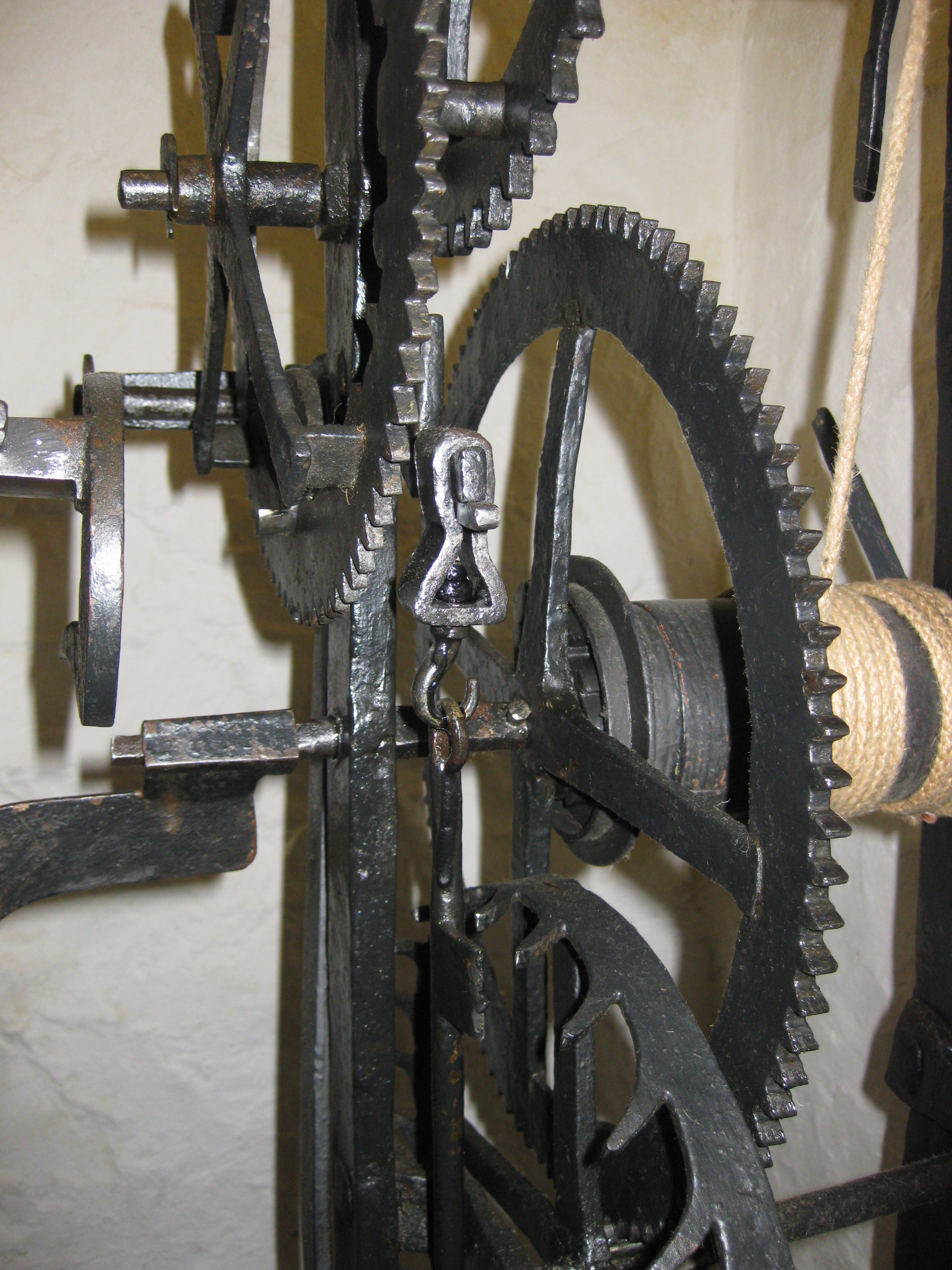 The going train of the Cotehele clock.